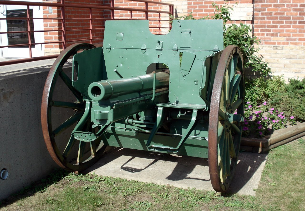 7.7 cm FK 96 n.A. displayed as monument in Shelburne, Ontario. Gun marked with years 1897 and 1905.